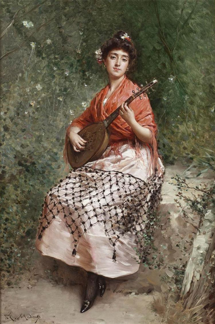 Painting from 1870 called "The Beautiful Bandurria Player", by Raimundo de Madrazo y Garreta. Unclear where name originates. Also unclear what the instrument is--mandolin, bandurria?